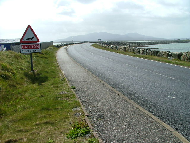 Causeway between Benbecula and South Uist at the background, Outer Hebrides, Scotland